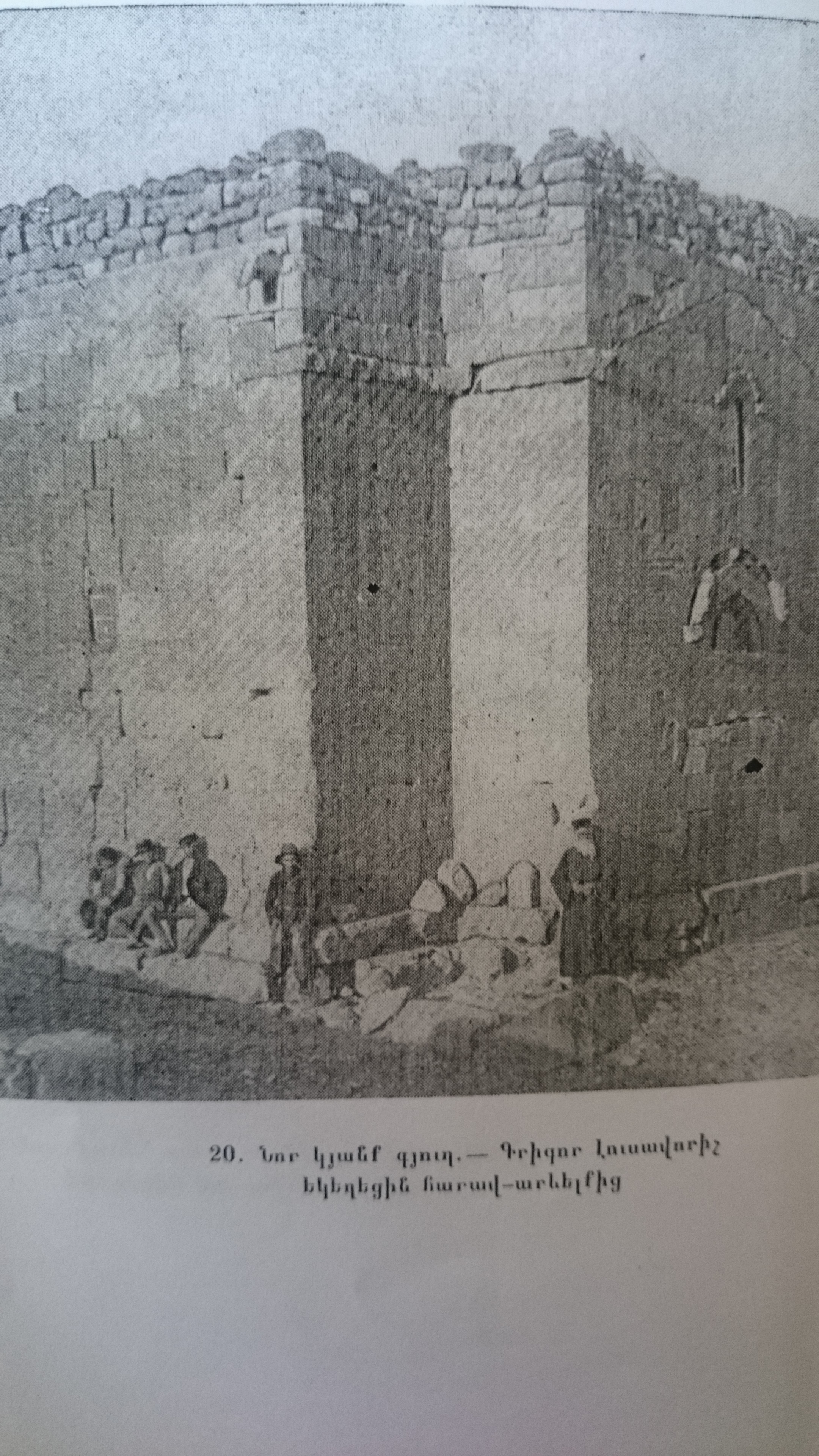 10֊րդ դար